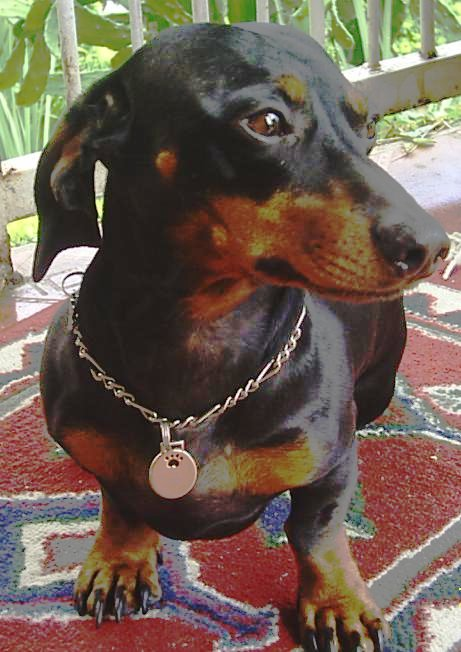 A tan and black coated dachshund. Linguicinha (dachshund ou teckel) preto e marrom. 2005-01-20, Porto Alegre - RS , Brazil. Camera: Samsung Digimax 202 which has 2.0 megapixels. photo by user Brunobarreto